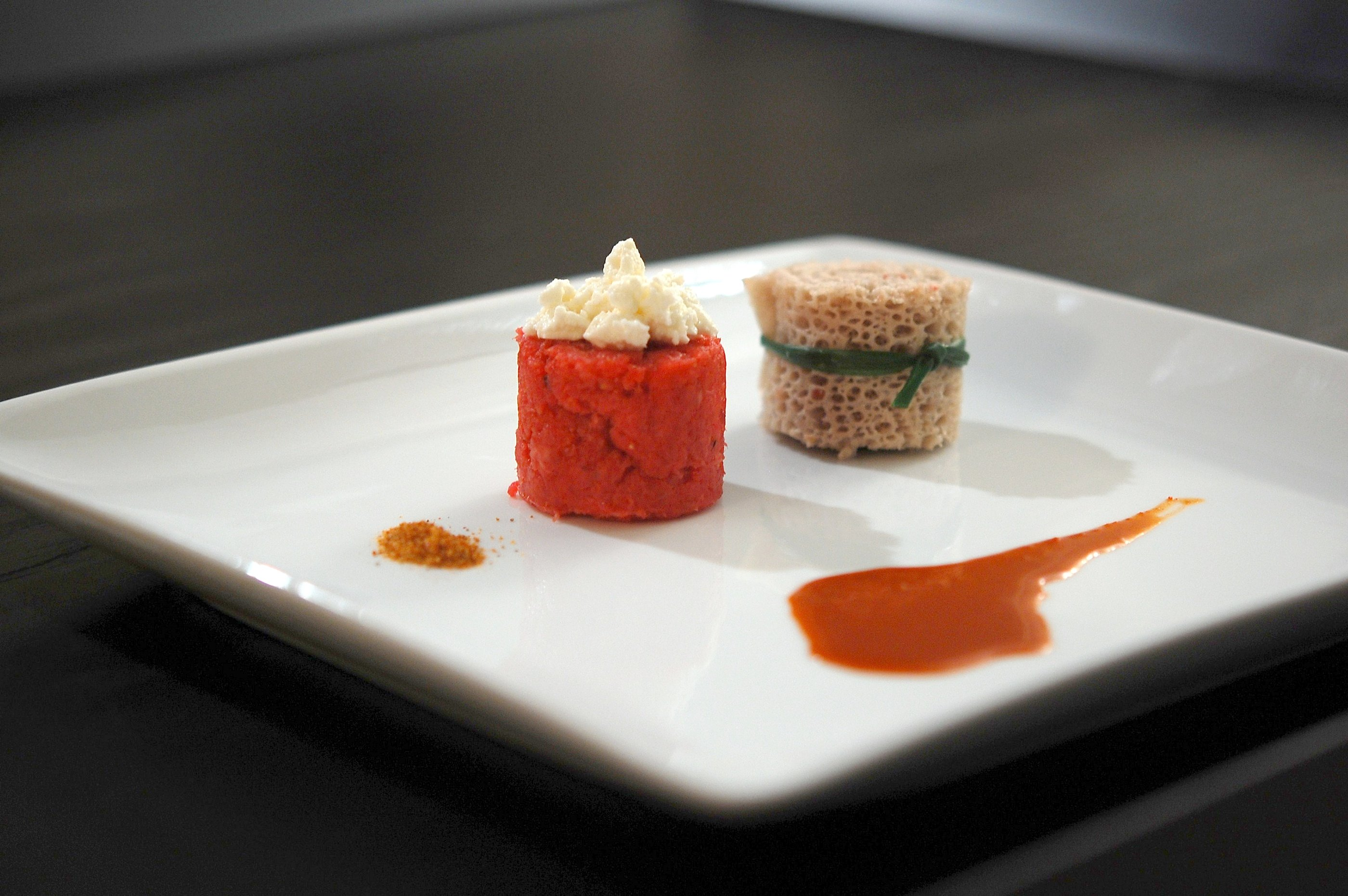 Beef Tartare (Kitfo) with Spiced Clarified Butter (Niter Kebe), Feta Cheese (Ayib), Teff Flatbread (Injera), Spicy Sauce (Awaze) and Bird Eye Chili Spice (Mitmita)